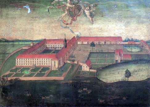 Kloster Wonnental around 1750s